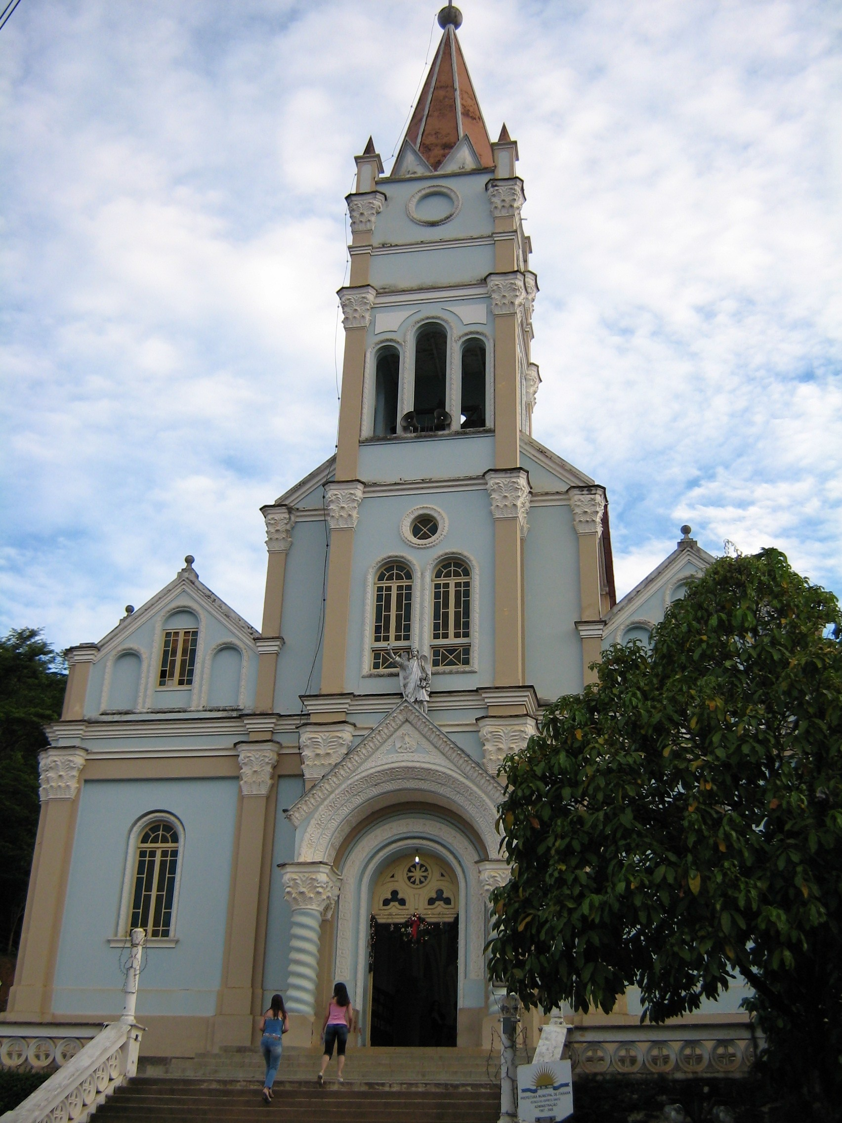 Catholic church of Itarana, Espírito Santo, Brazil